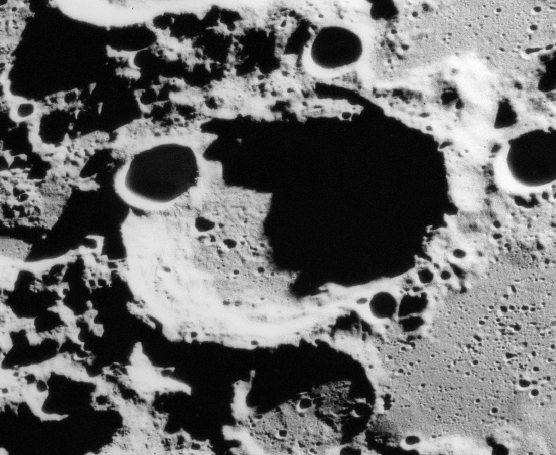 Oblique view of Anuchin crater, on the moon. Taken by Apollo 15 mapping camera just after trans-Earth injection.